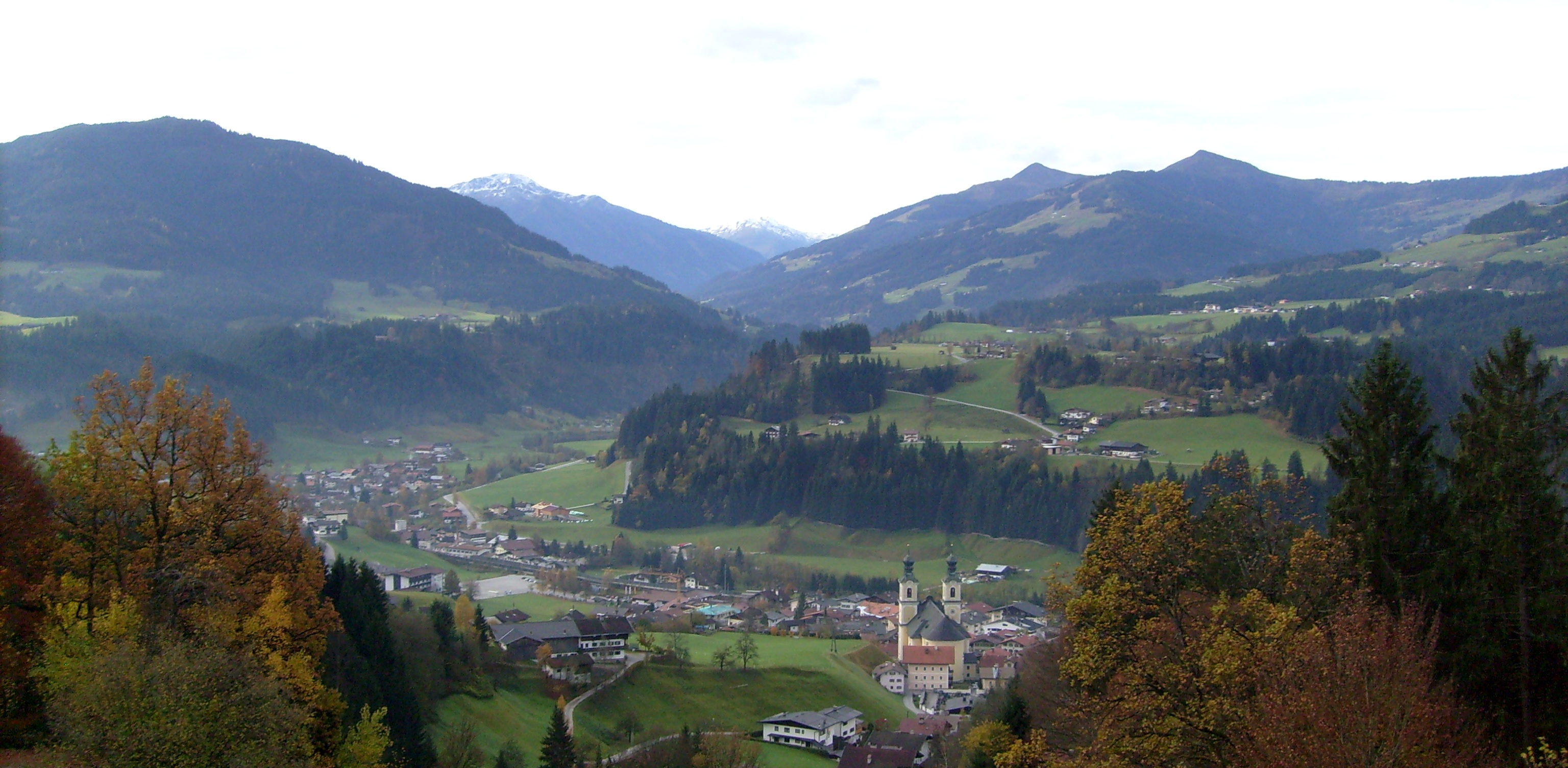 Hopfgarten im Brixental photographed from a hiking trail on Hohe Salve